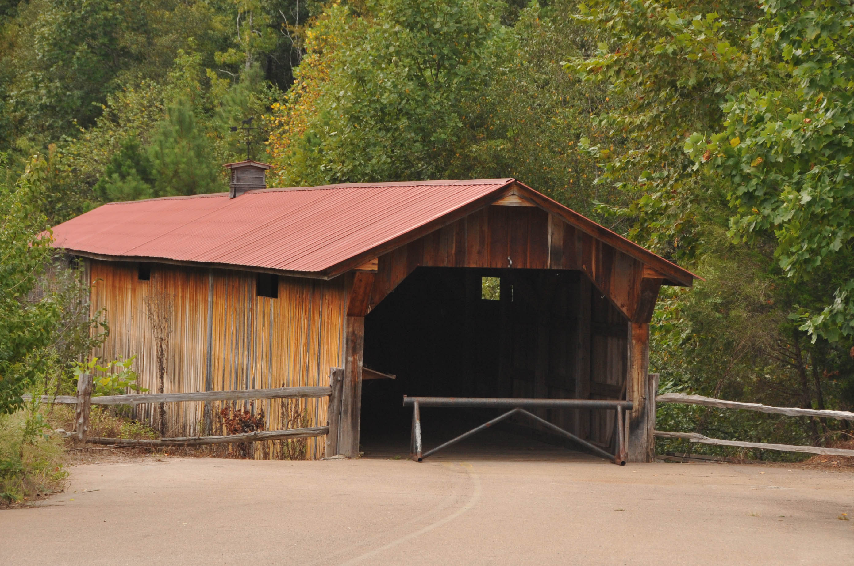 140', CIRCA 2005, 33-53-A) ACROSS POCKET CREEK IN OLD GILLIAM MILL PARK W. OF SANFORD, TOWNSHIP, LEE COUNTY, ALONG SIDE OF NC. NC42 ; BRIDGE IS BYPASSED